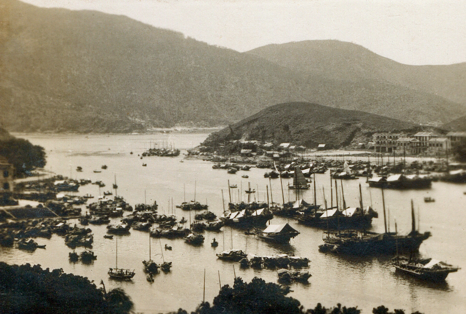 Hong Kong in the 1930s See also [1] [2]